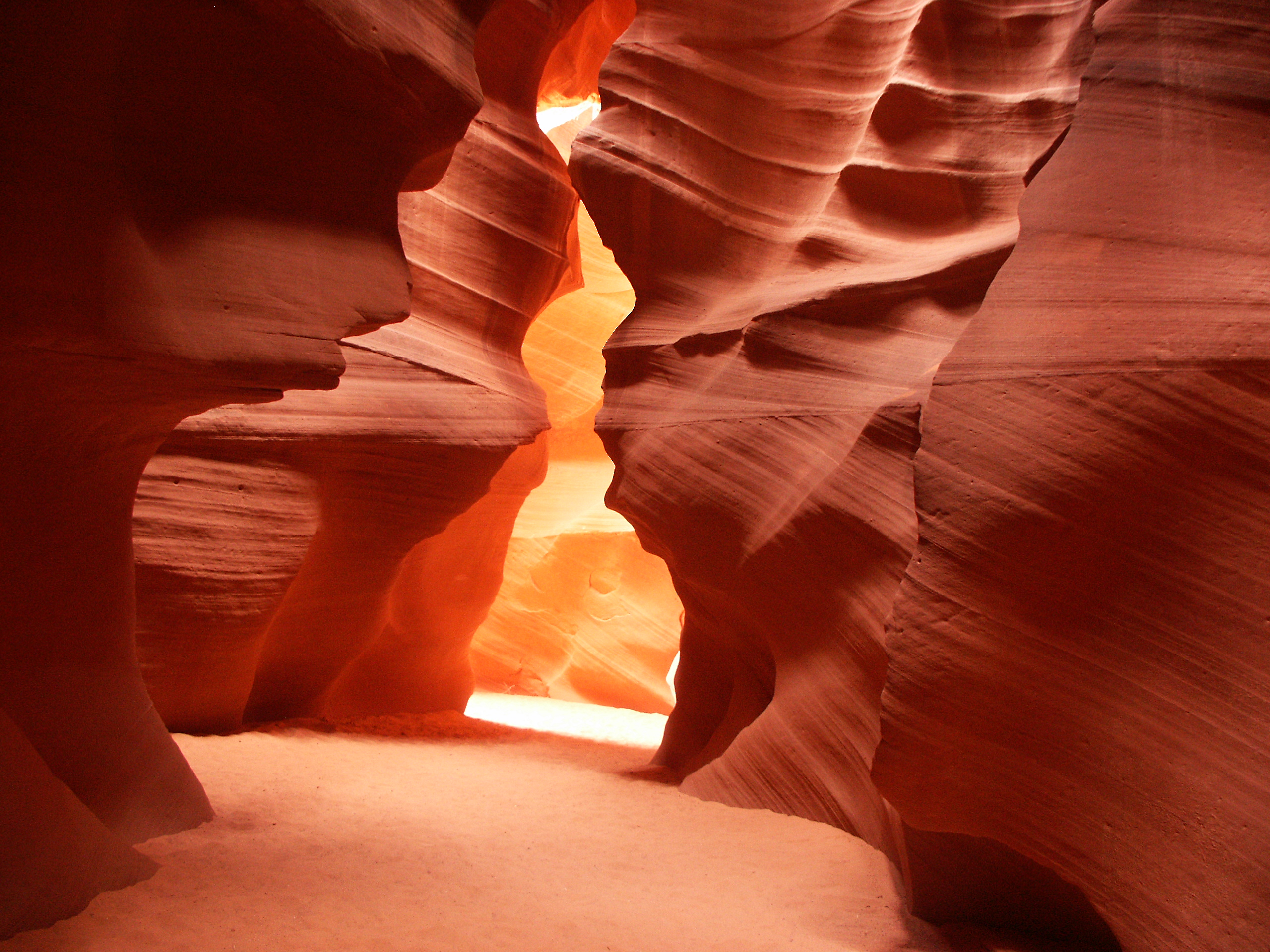 Antelope Canyon, Navajo Tribal Park, Arizona, USA.